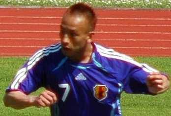 Japanese soccer player Hidetoshi Nakata, preparing for Football World Cup 2006